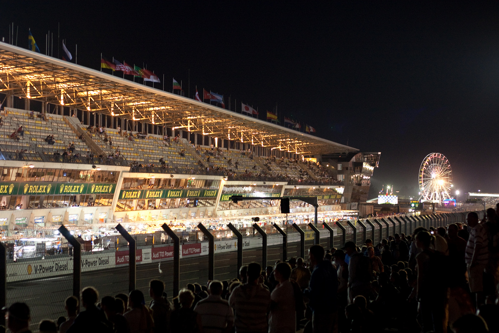 The Le Mans Pit Garages during the night at the 2009 24 Hours of Le Mans.